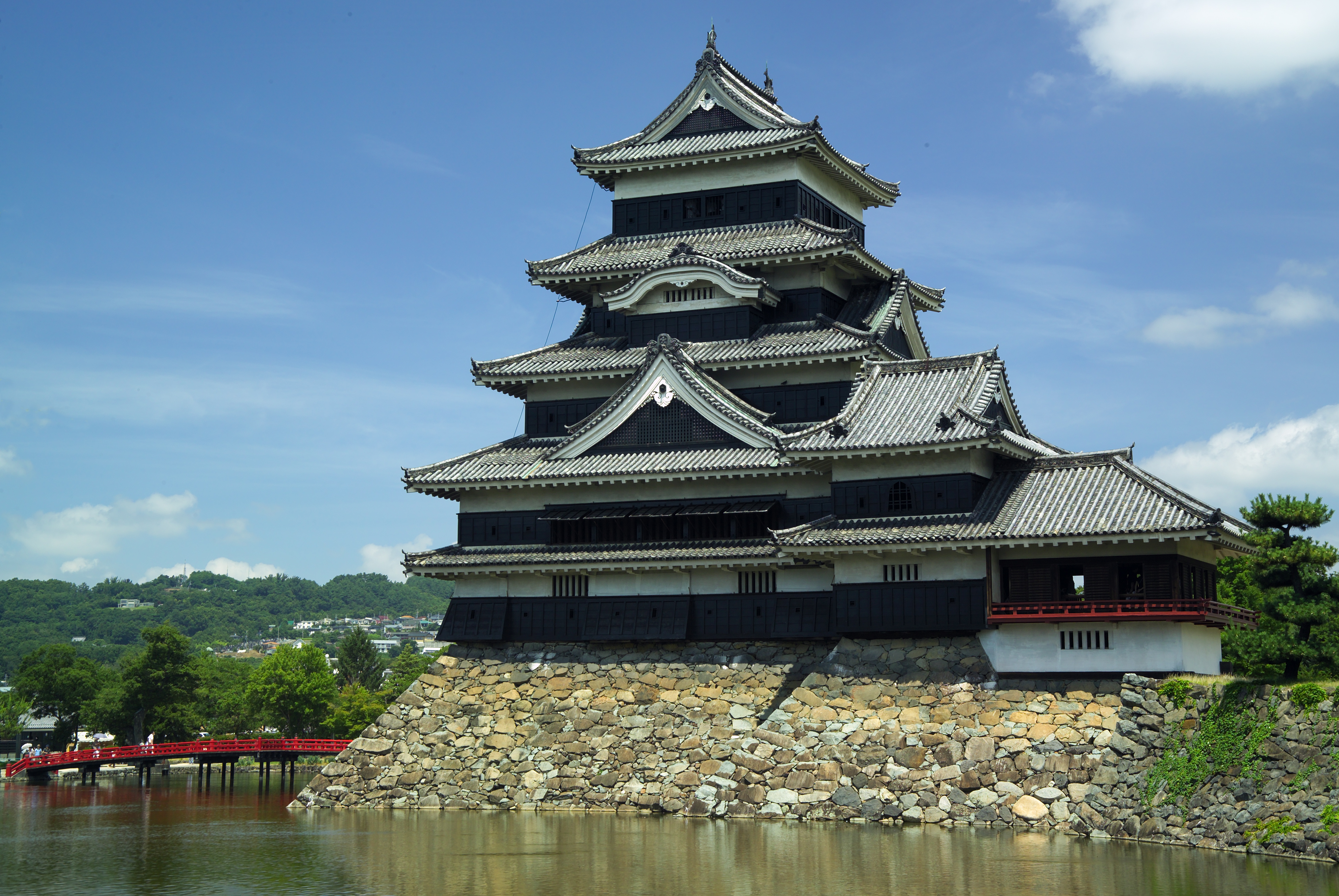 Building and grounds of Matsumoto Castle, Matsumoto, Nagano Prefecture, Japan